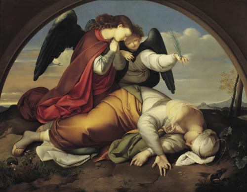 The Death of Holy Caecelia